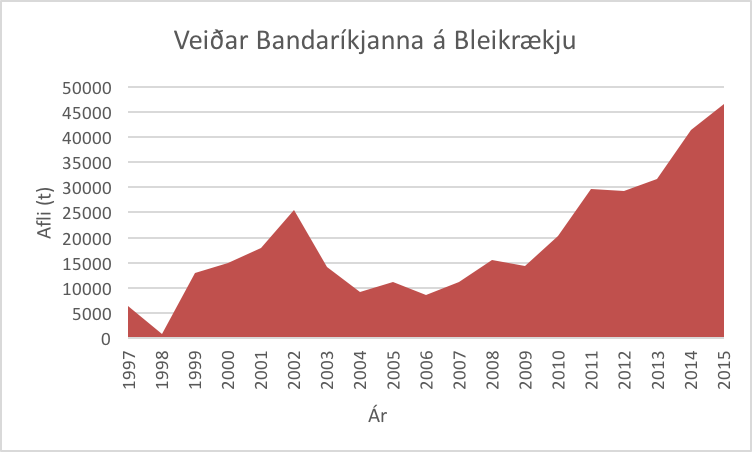 Veiðar á bleikrækju